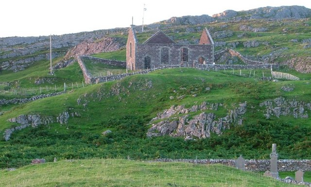 Ruined Church, Stoer.